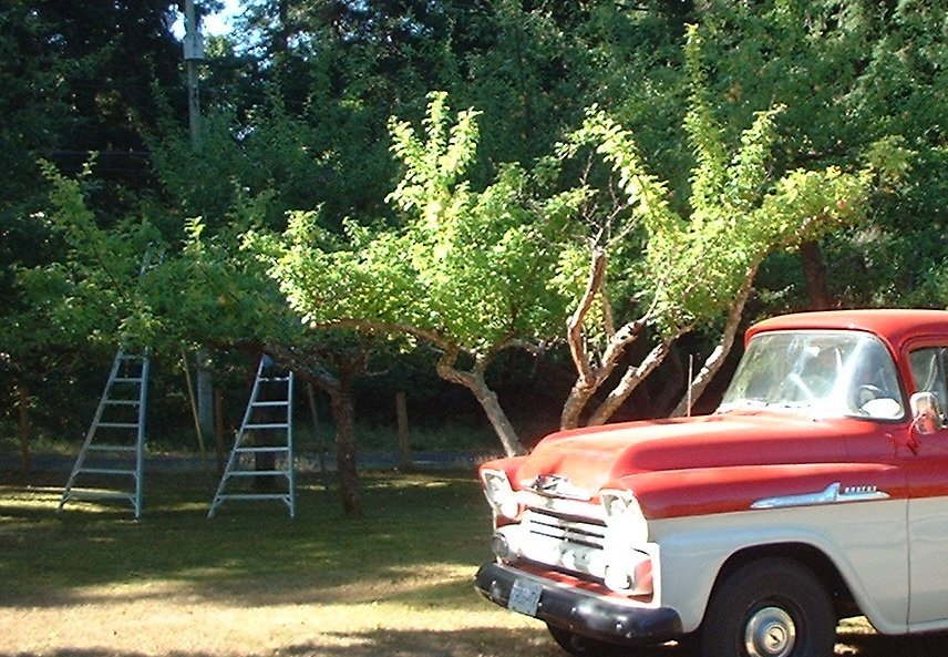 Orchard ladders and a Red-and-white pickup truck at an old homestead orchard, British Colombia, Canada